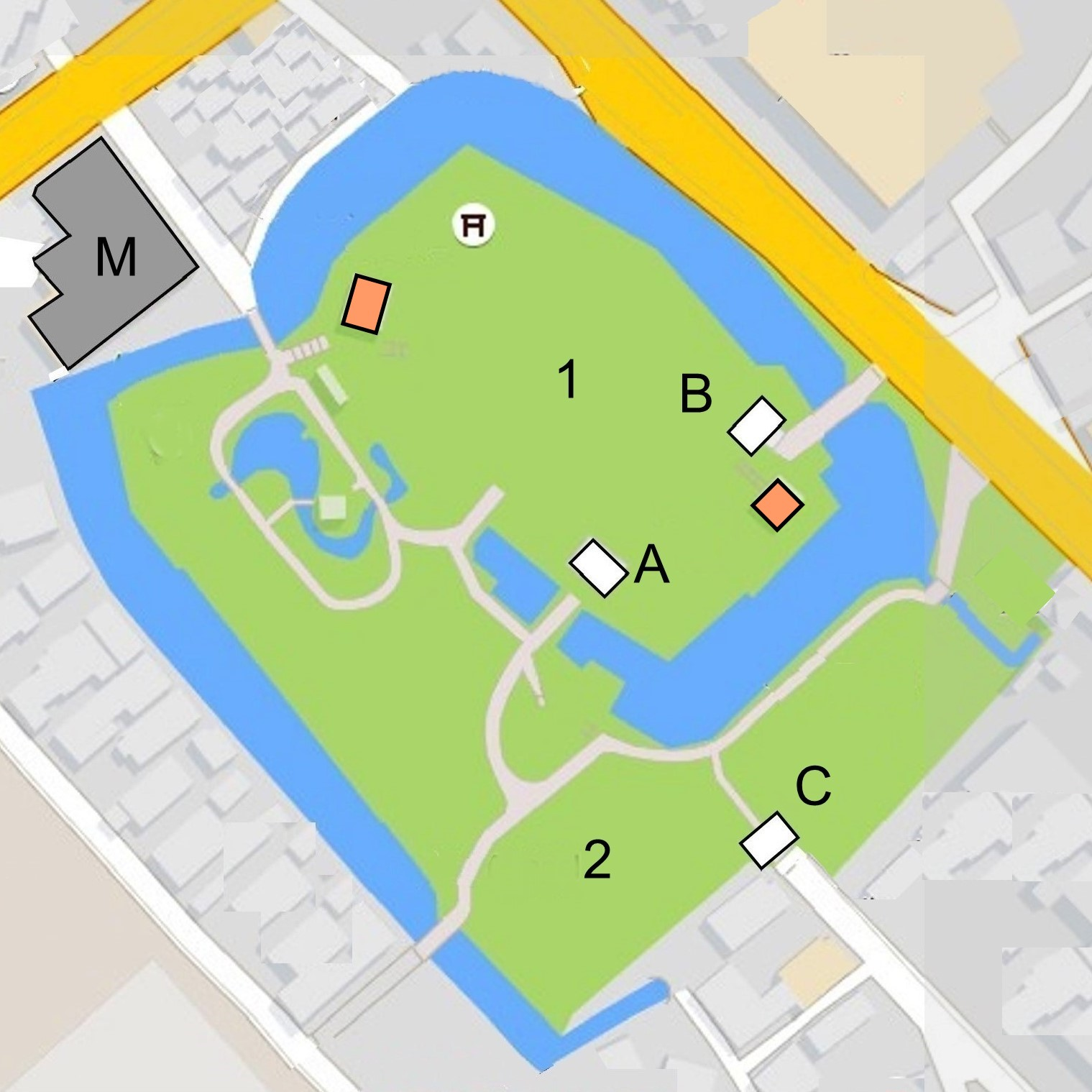 Todays Tsuchiura Castle